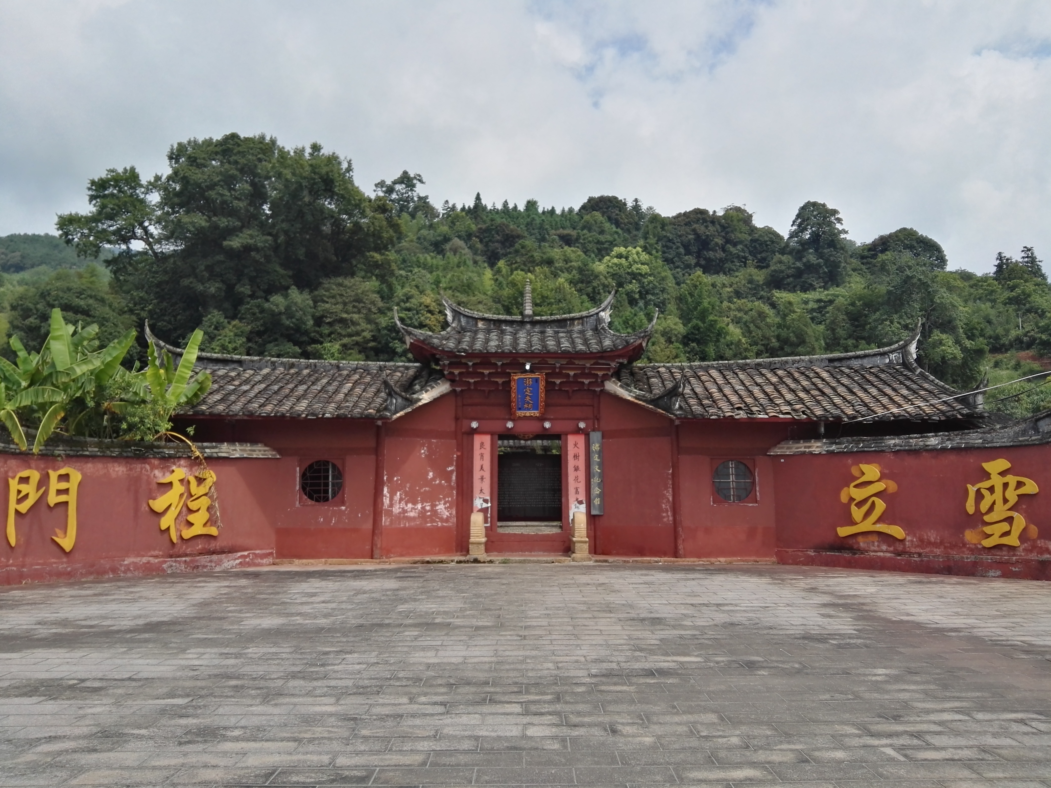 You Dingfu Ancestral shrine 中文（中国大陆）: 游定夫祠，位于中国福建省南平市延平区南山镇凤池村。